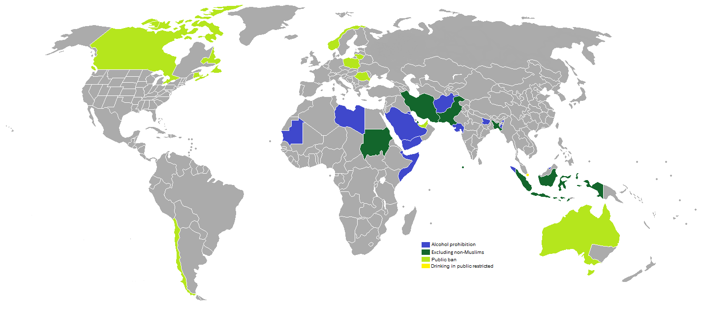 A map of countries with alcohol prohibition. Former countries with alcohol prohibition excluded.